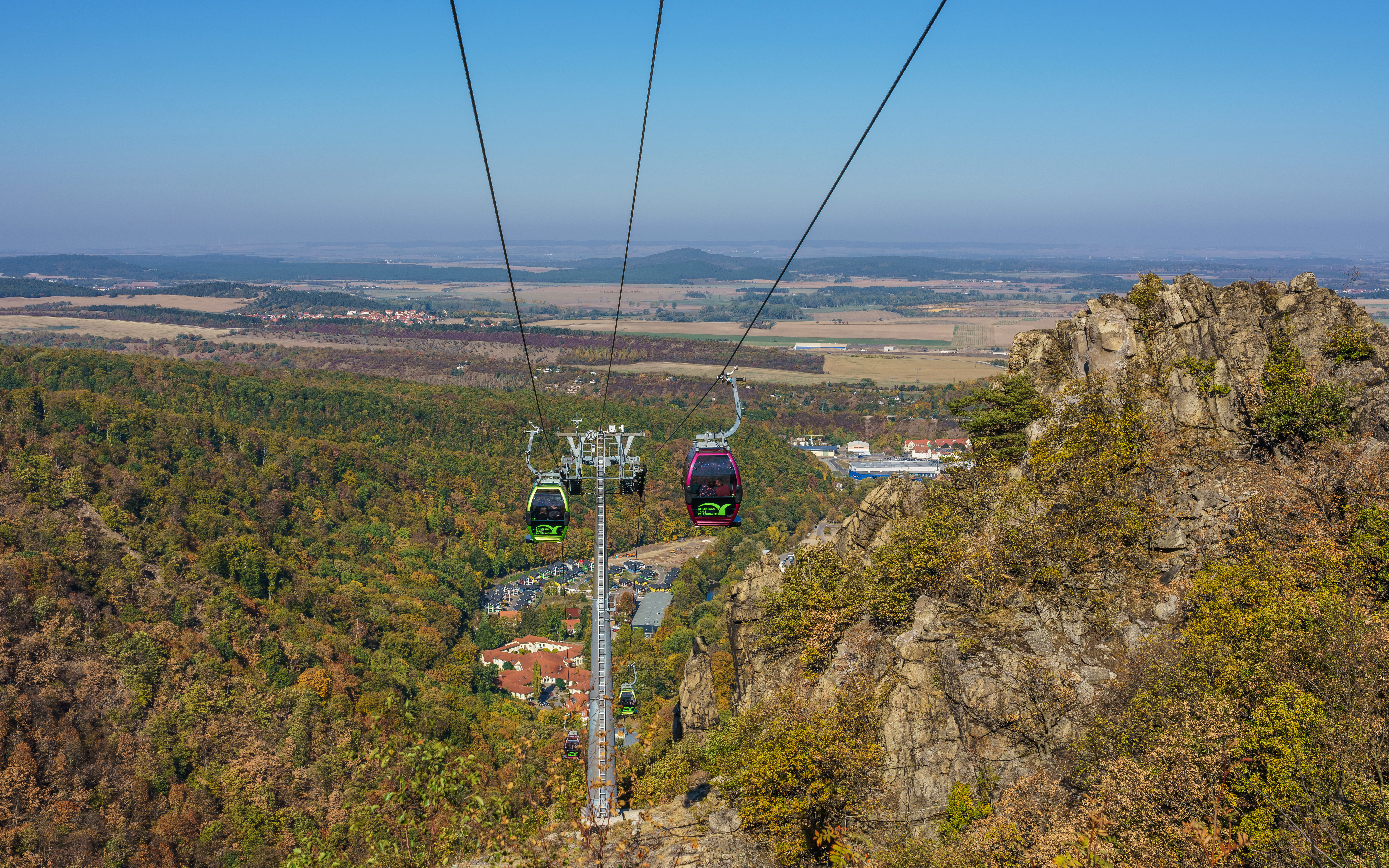 Gondola lift to Witches' Point in Thale, Germany